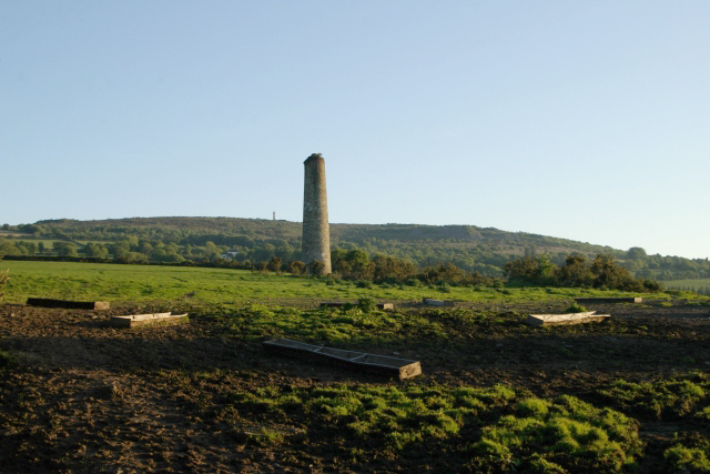 Mine Chimney, near Luckett, Cornwall. Mine Chimney, near Luckett, Cornwall, with Kit Hill in the distance.